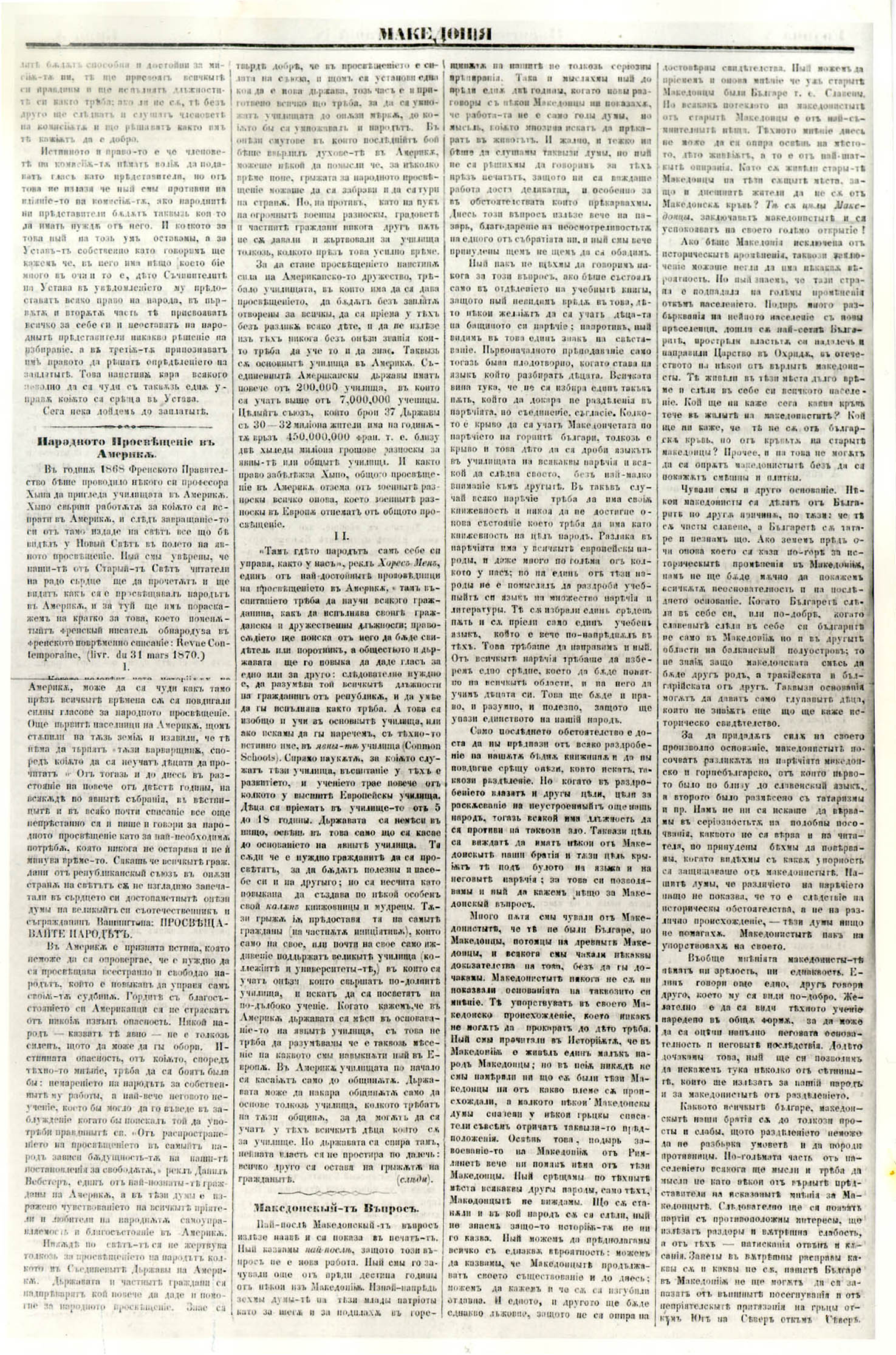 Page first of the article "Macedonian Question" written by Petko R. Slaveikov and published 18th January 1871 in the "Macedonia" newspaper in Constaninople.